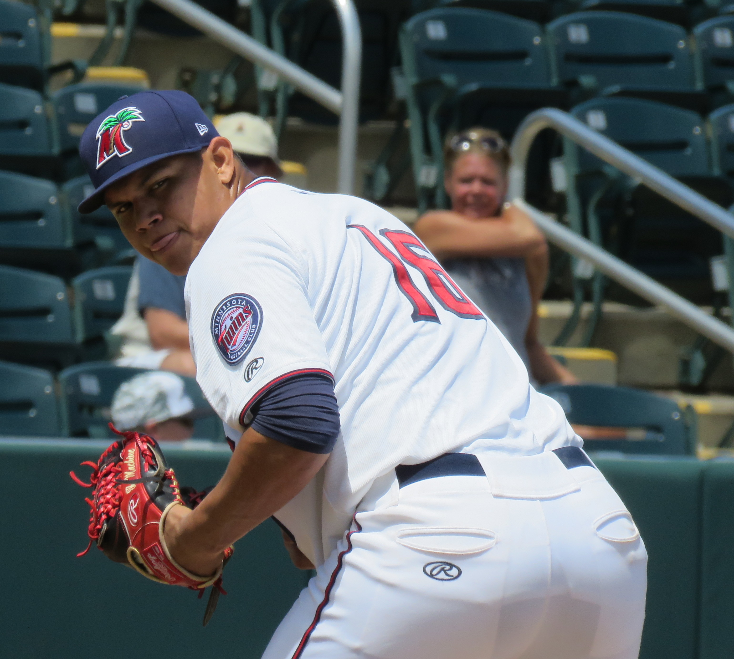 Graterol on the mound